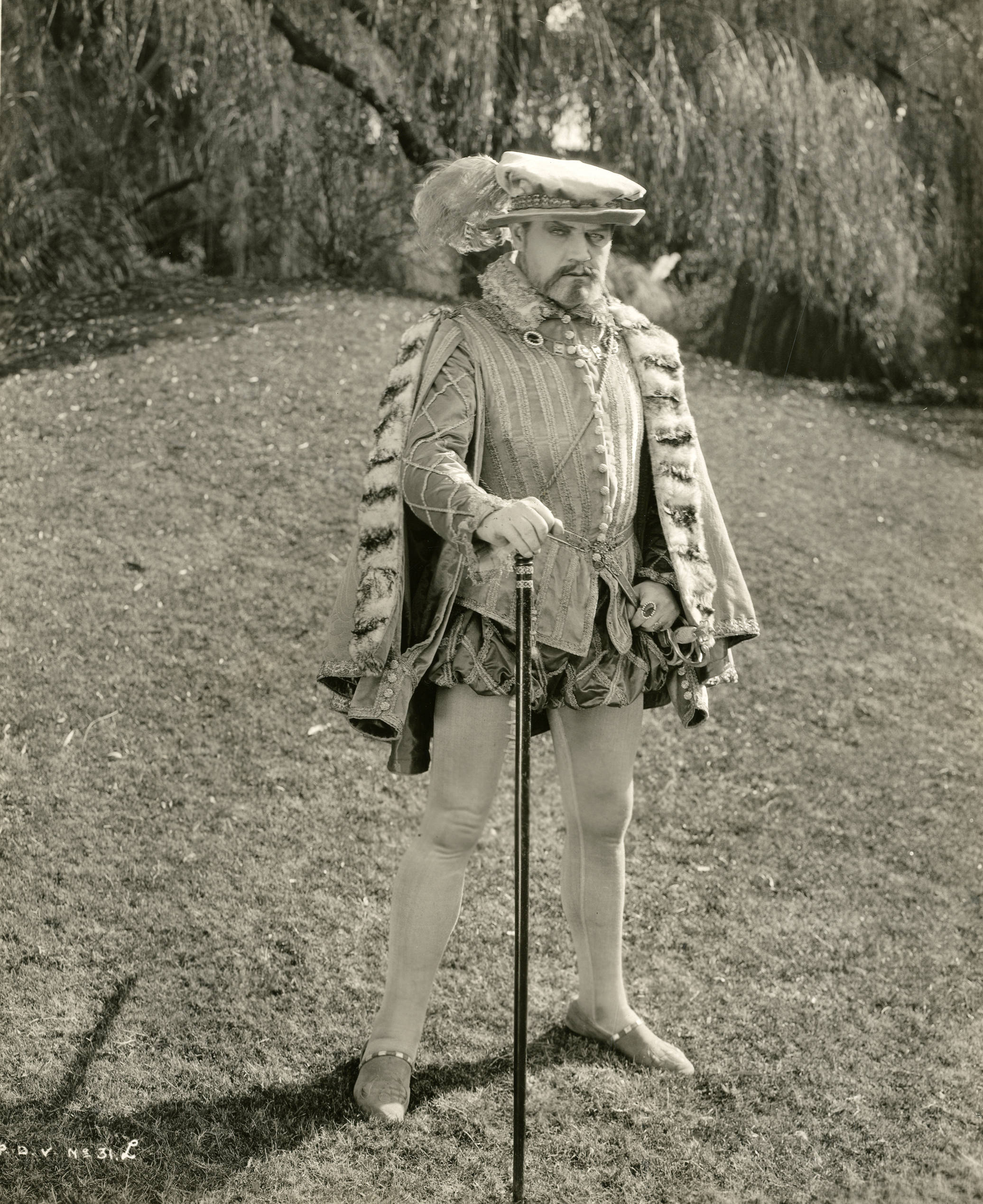 Anders Randolf, film actor, in Dorothy Vernon of Haddon Hall (1924). Subjects: actors